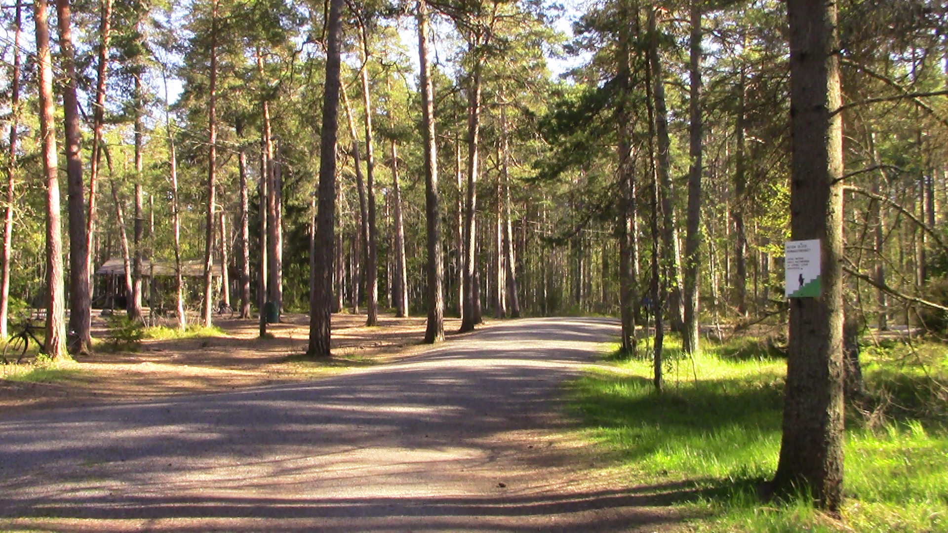 Jogging track or path at Porin metsä recreation ground near Isomäki suburb in Pori, Finland.